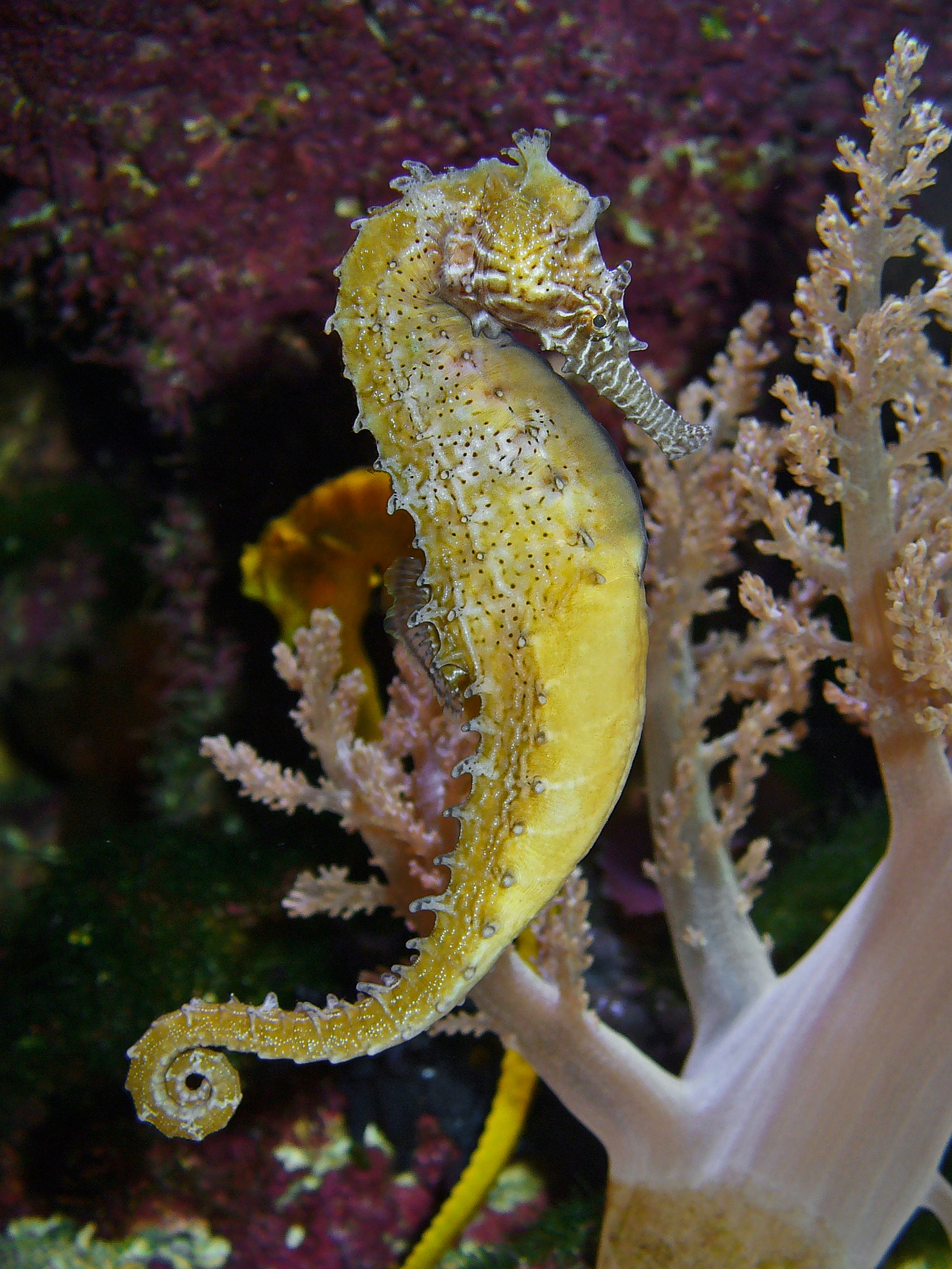 Hippocampus barbouri, Syngnathidae, Barbour's Seahorse; Staatliches Museum für Naturkunde Karlsruhe, Germany.